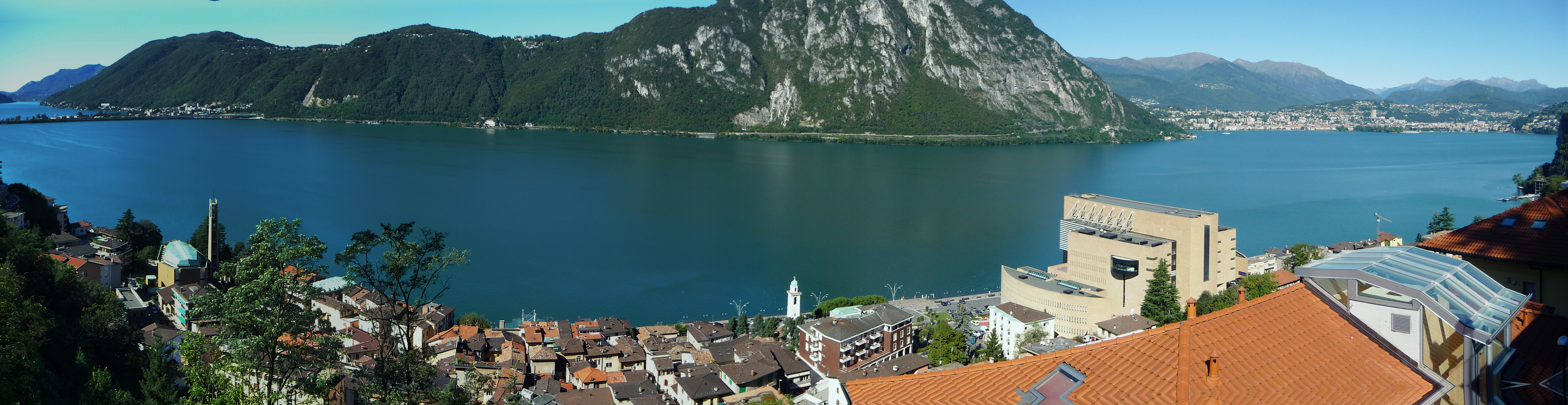 View to the Lugano Lake from Campione d'Italia (Lombardy, Italy).